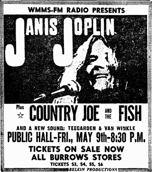 Print ad for Janis Joplin concert